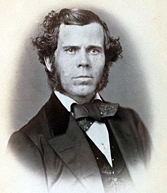 Samuel S. Marshall, US Representative from Illinois